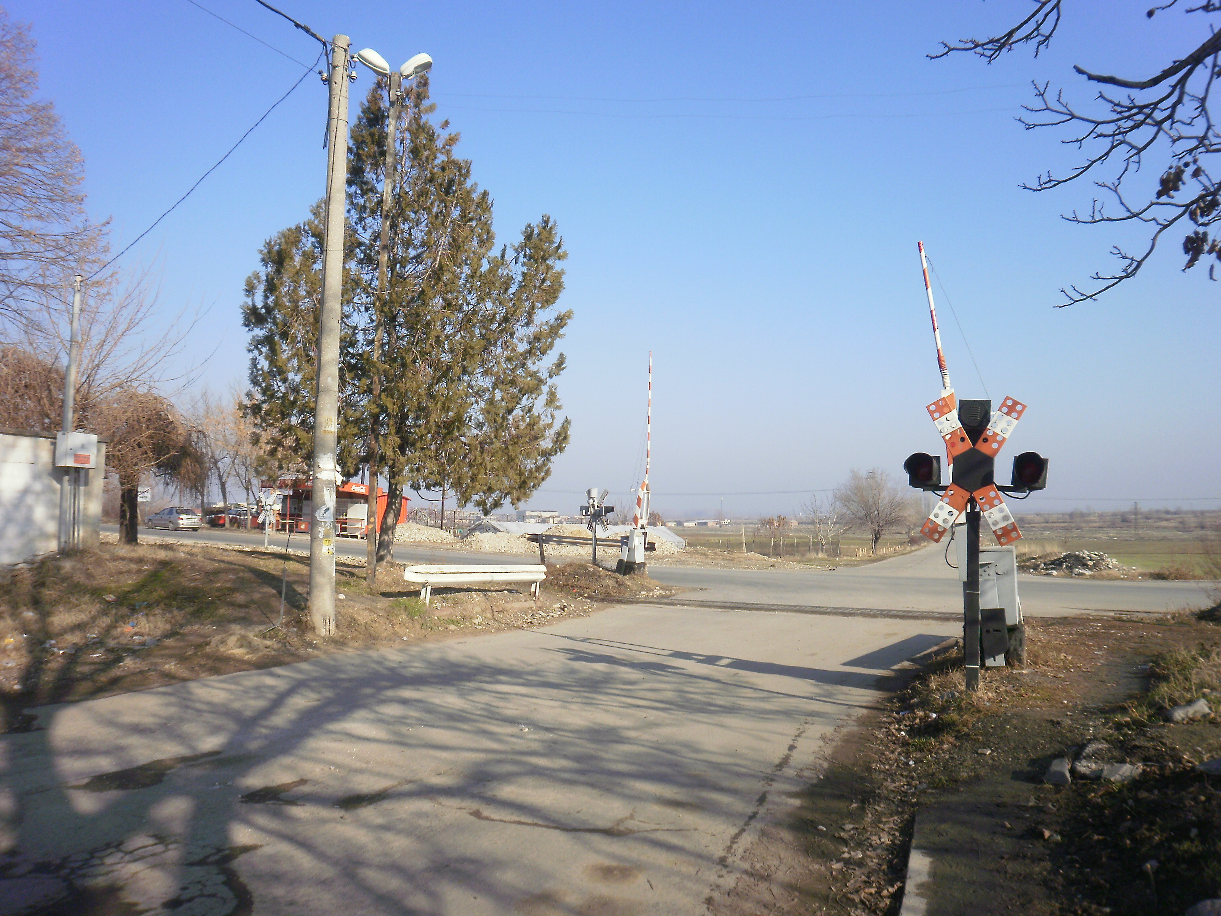 Pamporovo railway station, Bulgaria